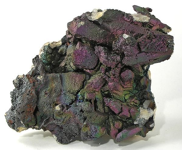 Hematite, Quartz Locality: Graves Mountain, Lincoln County, Georgia, USA (Locality at ) Size: 10.9 x 10.4 x 4.3 cm. Call it turgite, limonite, or what you will - this is an absolute CLASSIC American specimen, out of the fabulous collection of Ed David. The iridescent turgite here, with its play of purple, green and blue hues, has coated a large plate of euhedral quartz crystals, creating this bizarre "landscape" of form and color.